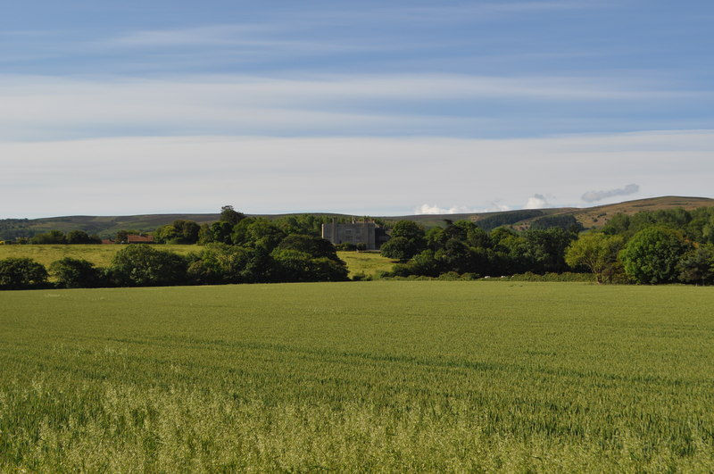 The Courthouse